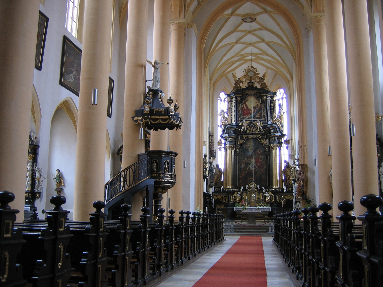 Iphofen, Bavaria, Germany, inside of St. Veit church